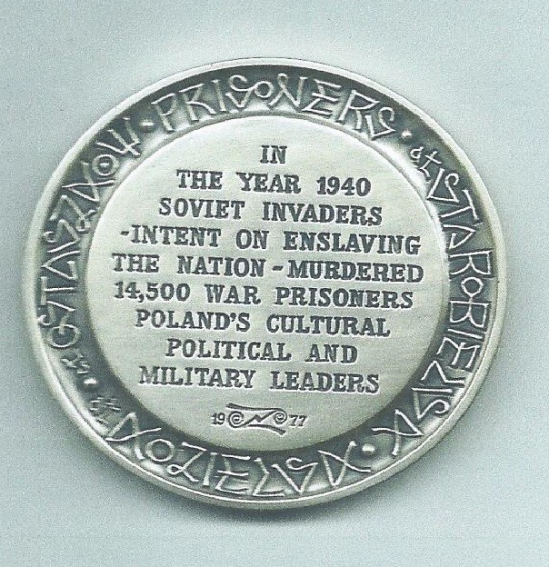 Reverse: Katyn Medal